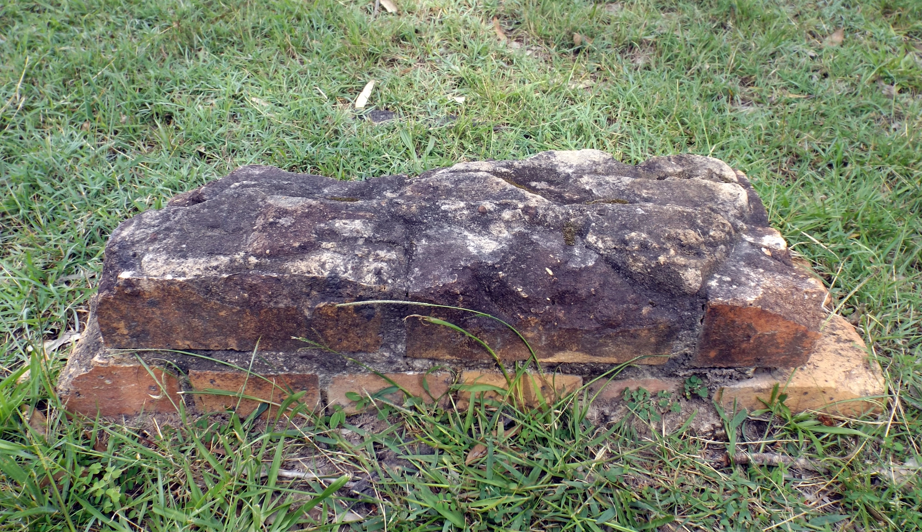 Photo of the remains of the Ormiston Fellmongery at Orminston Park, Ormiston, City of Redlands, Queensland, Australia.